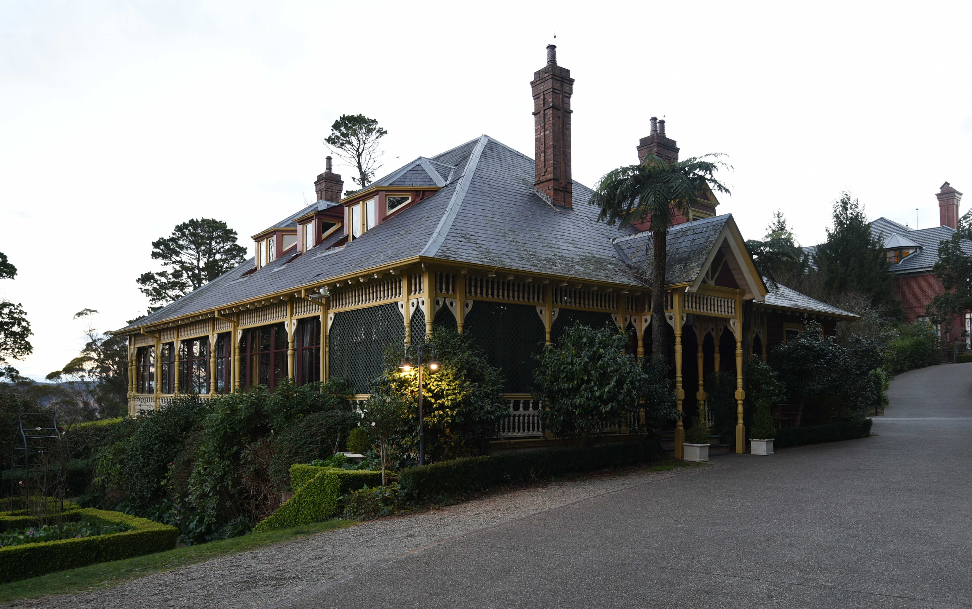 Lilianfels Hotel, Katoomba, NSW, Australia